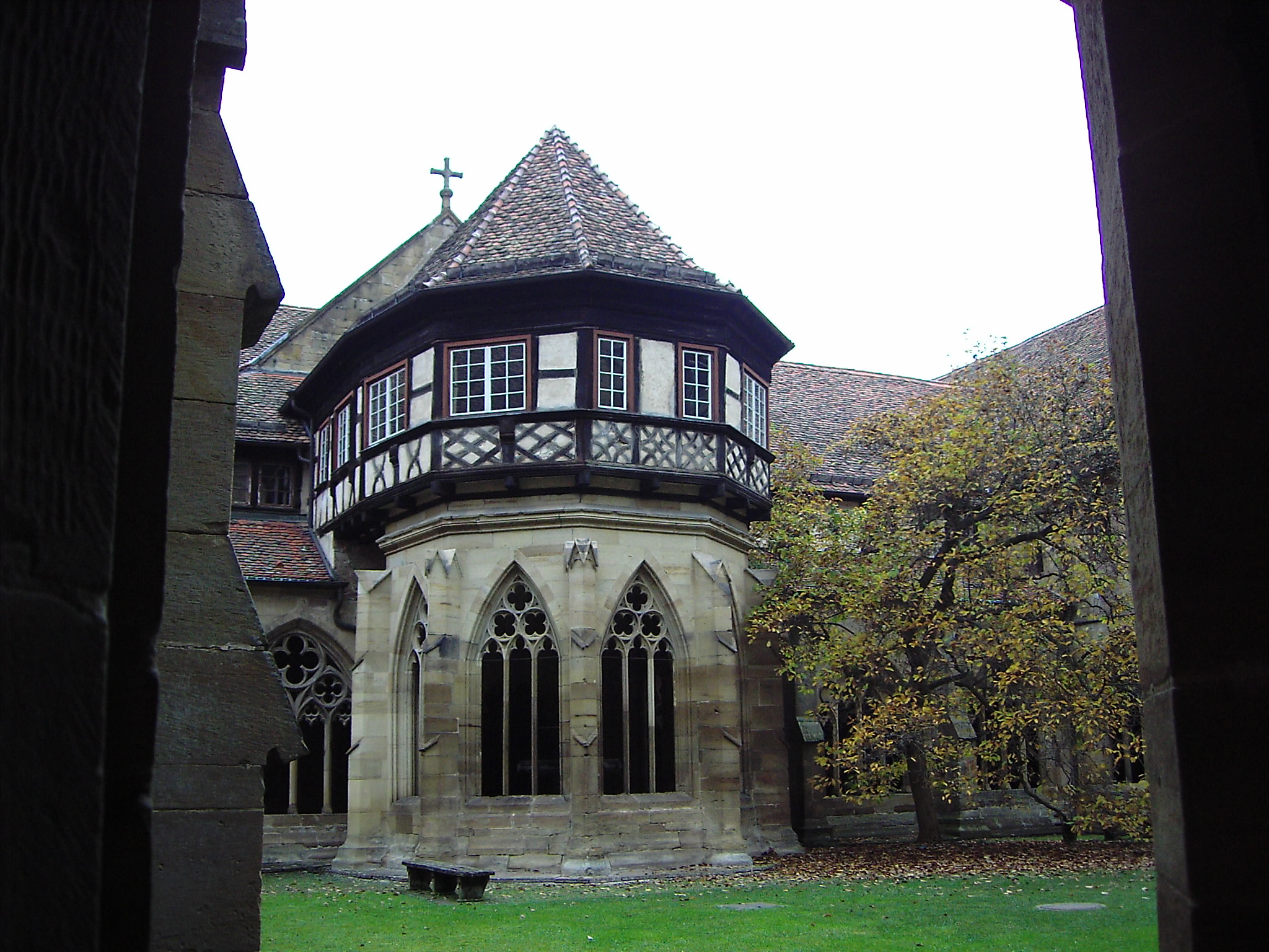 Maulbronn Monastery - Wellhouse